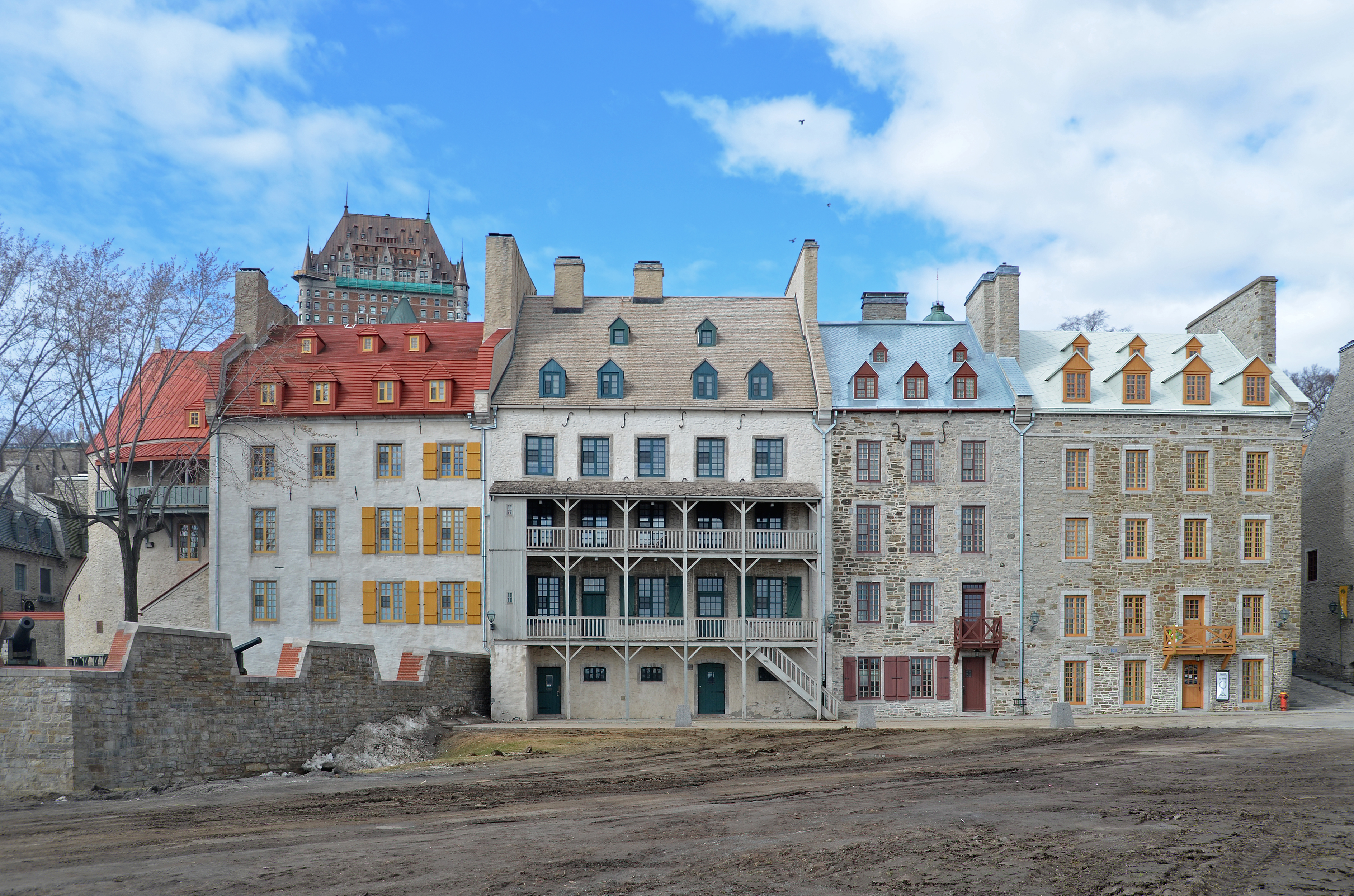 City view of Quebec, Canada, with the Chateau Frontenac on the left. Quebec city, Quebec.